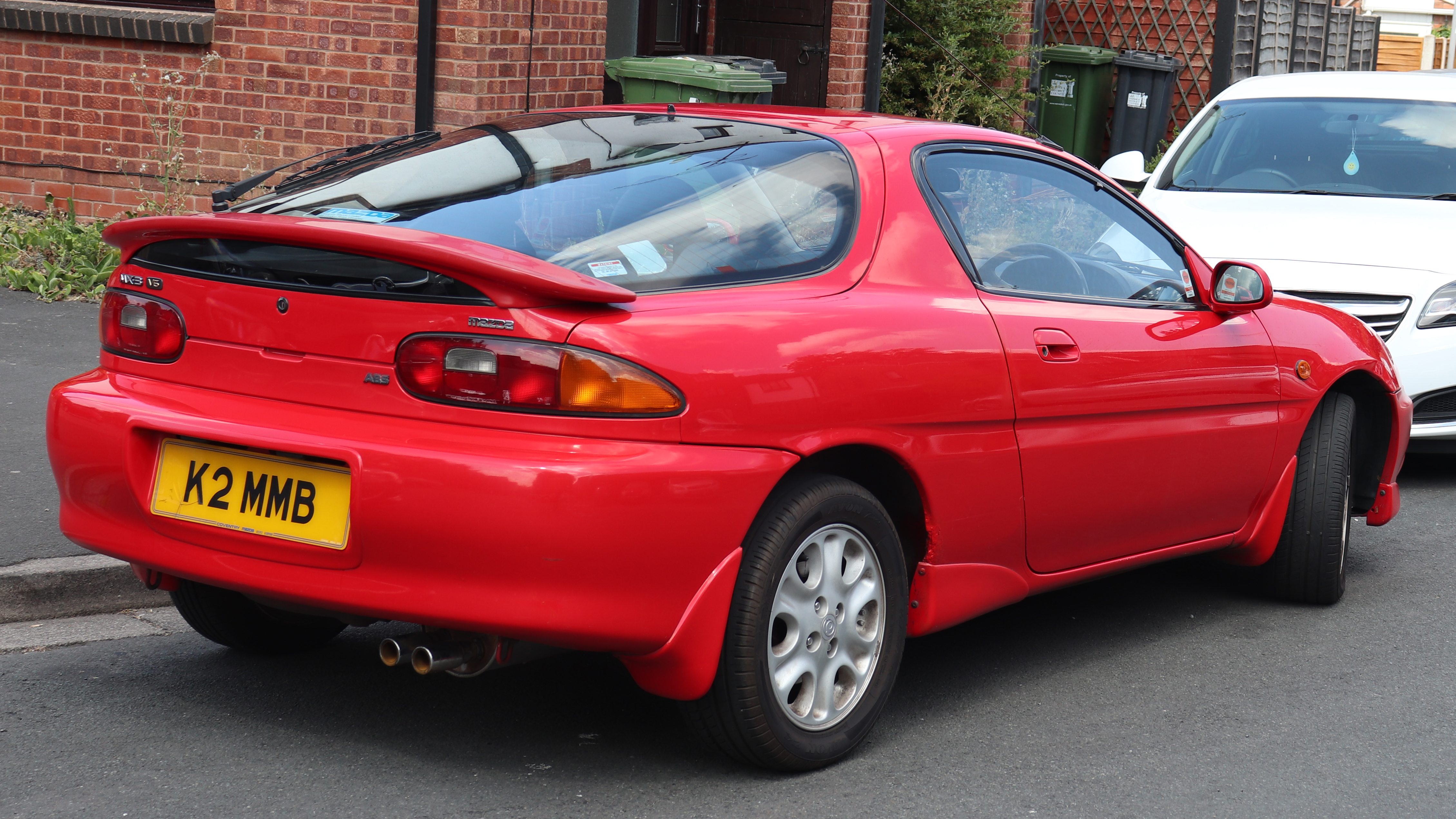 1992 Mazda MX-3 ABS 1.8 Rear Taken in Warwick